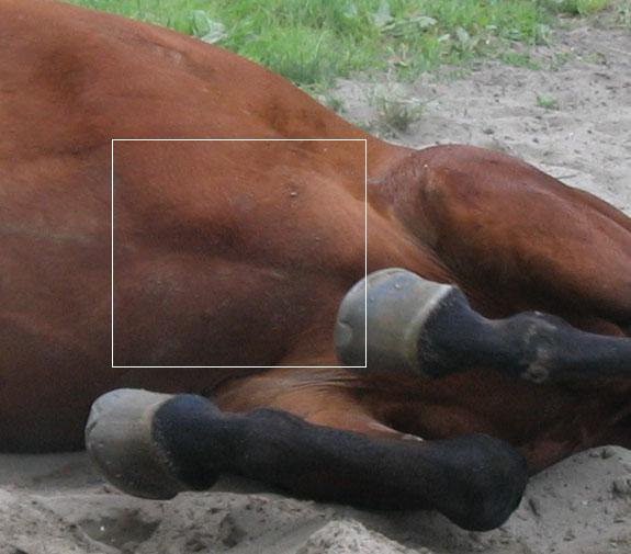 photograph shows chest muscles of a horse rolling over